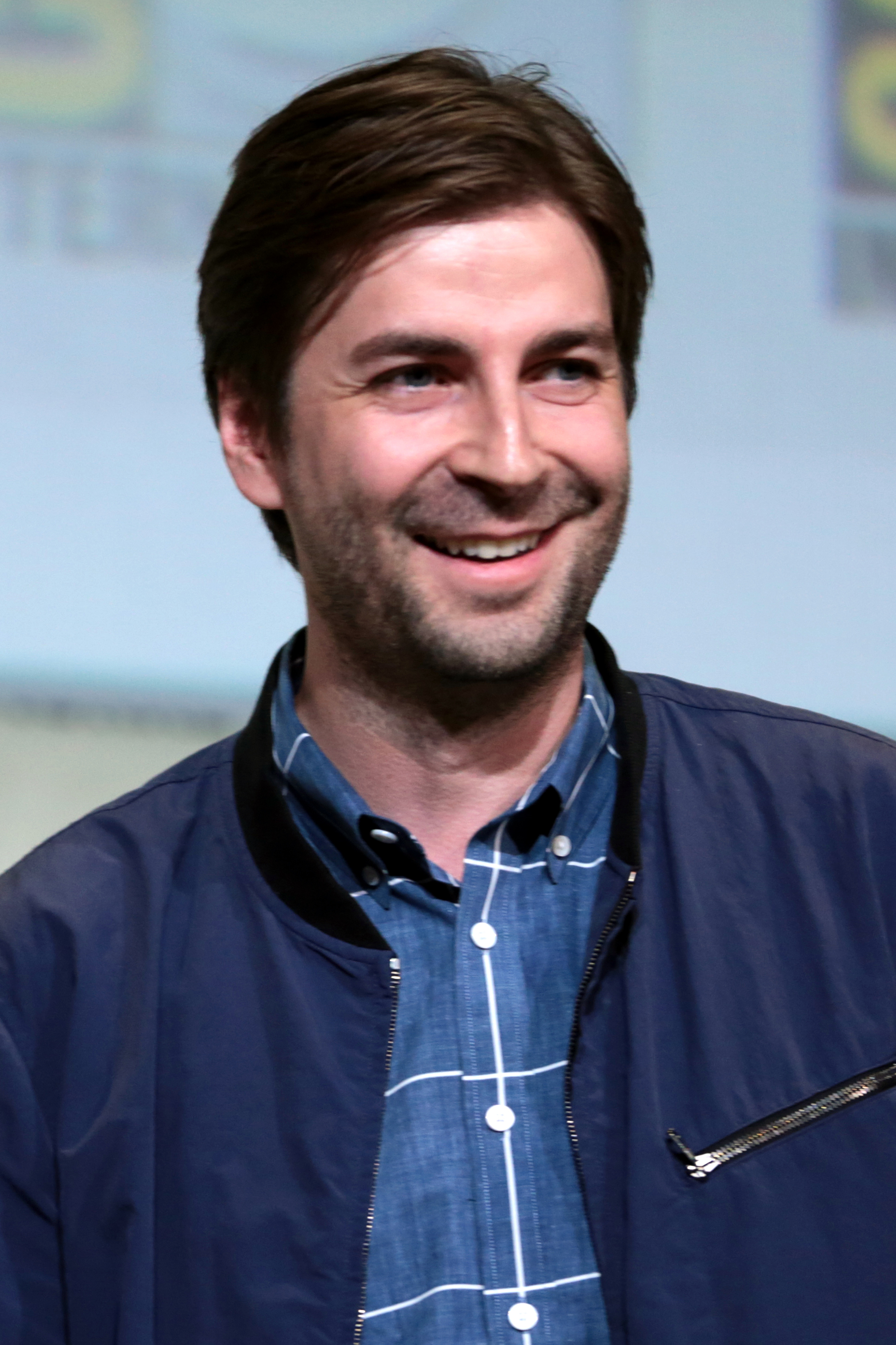 Jon Watts speaking at the 2016 San Diego Comic Con International, for Spider-Man: Homecoming, at the San Diego Convention Center in San Diego, California.